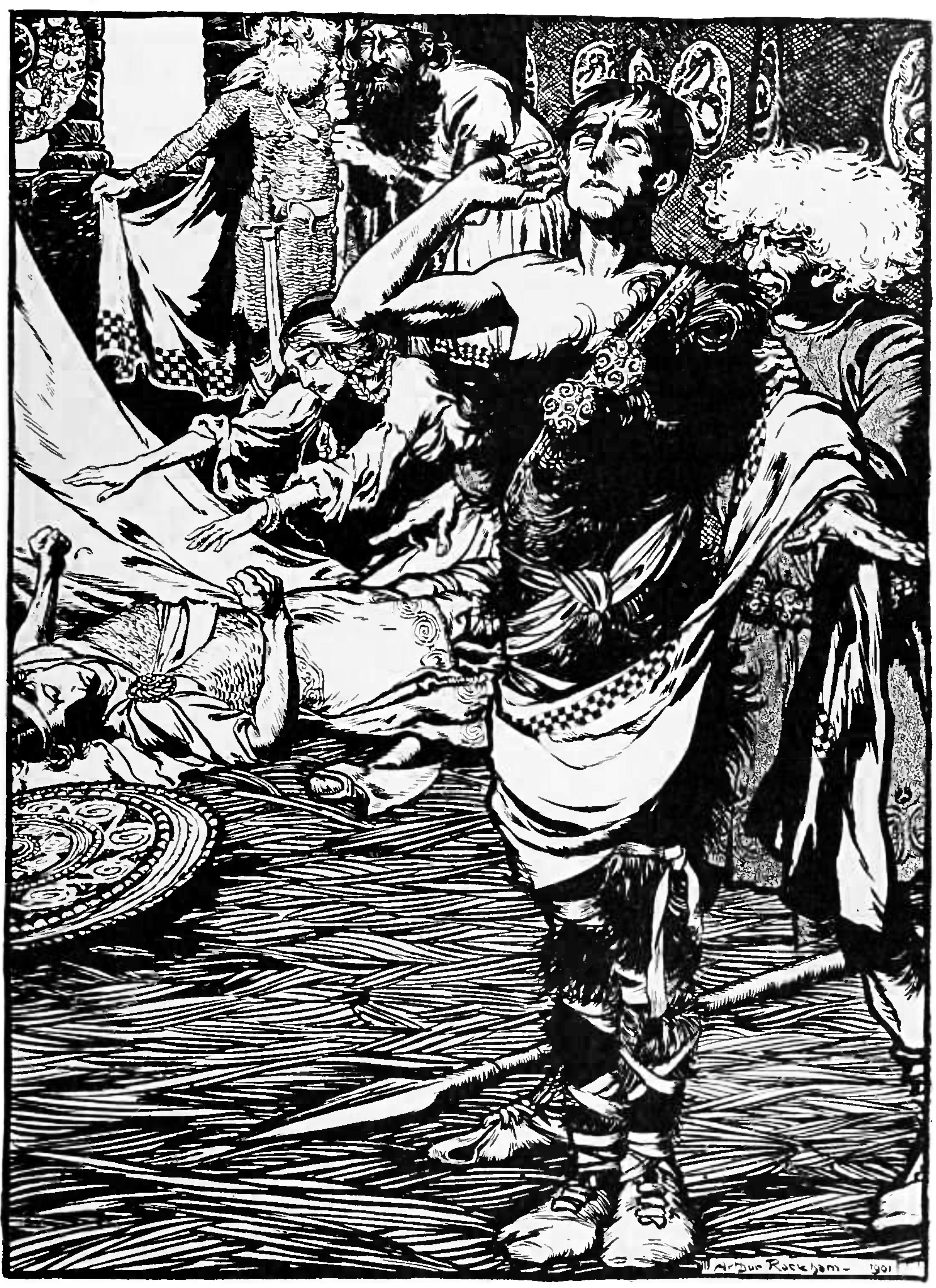 "There broke forth a wailing and a lamentation" by Arthur Rackham. A scene from the death of Baldr. Baldr lies dead on the ground, and the blind Höðr is in the foreground with Loki behind him.